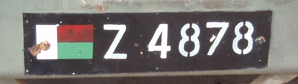 License plate of a vehicle in Madagascar belonging to the Gendarmerie Nationale